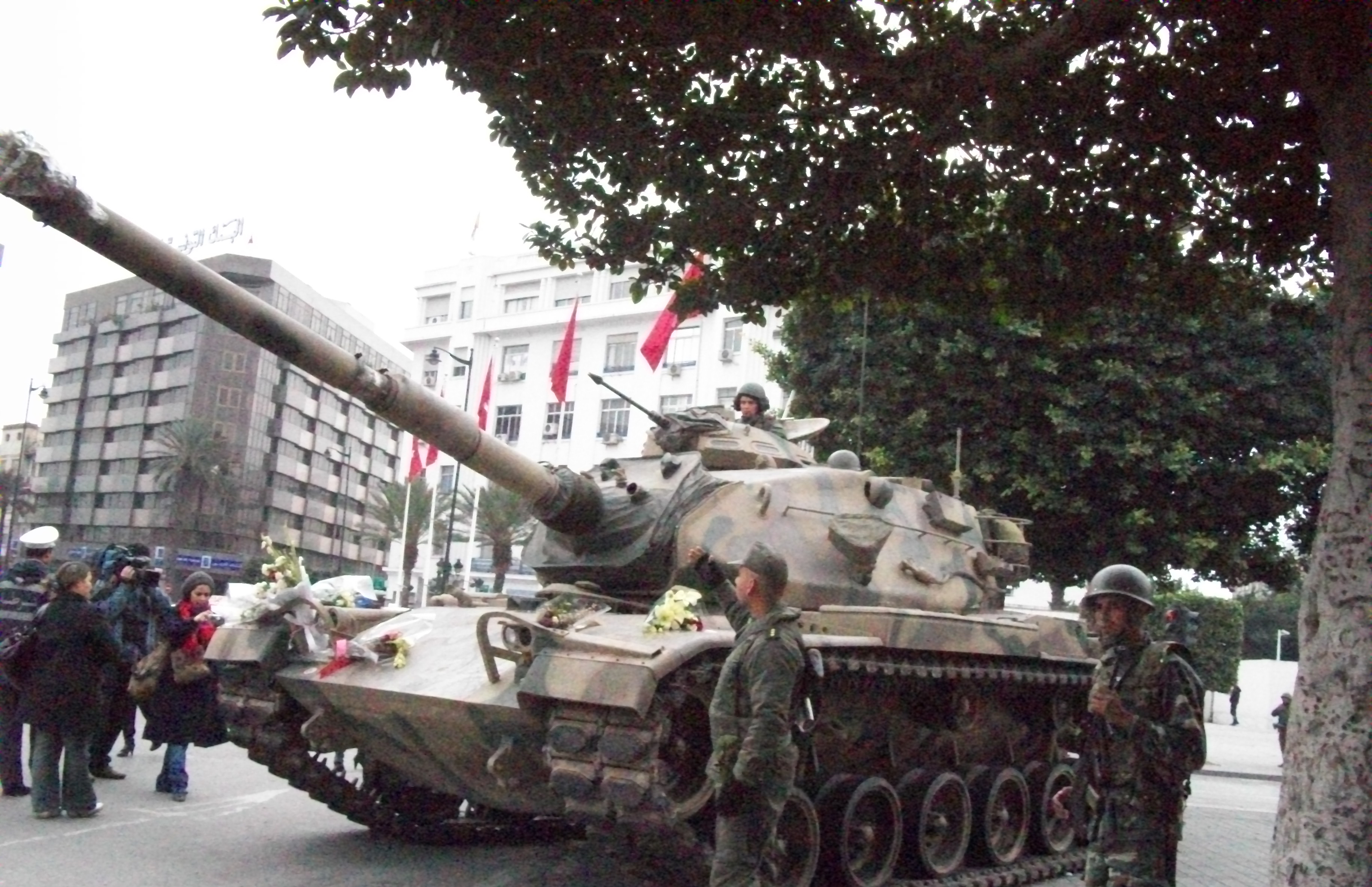 Full story: القصة l'histoire